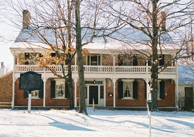 The Stone House in Fayetteville, Arkansas.